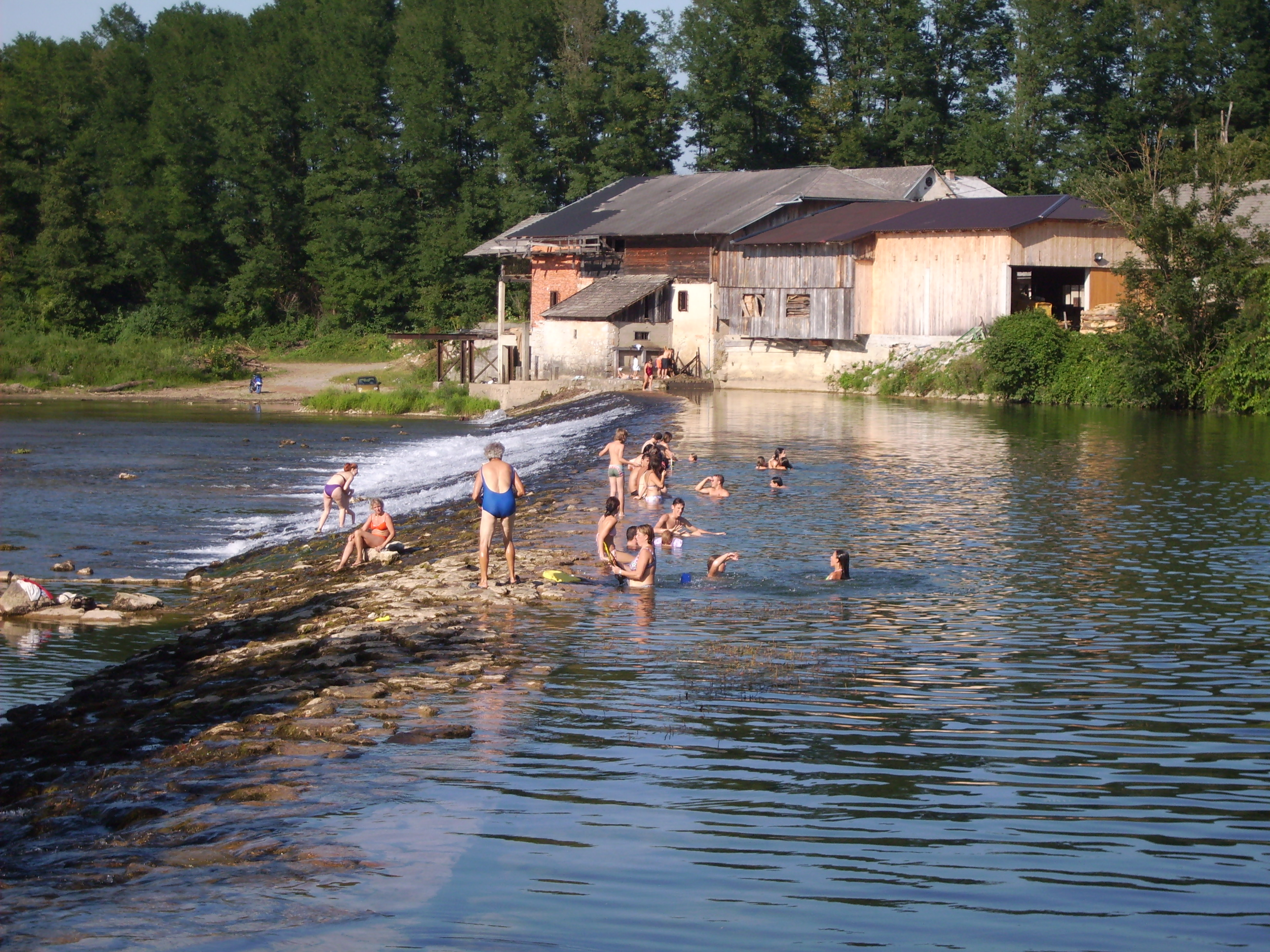 Kolpa river with old water mill (Griblje, Bela krajina)